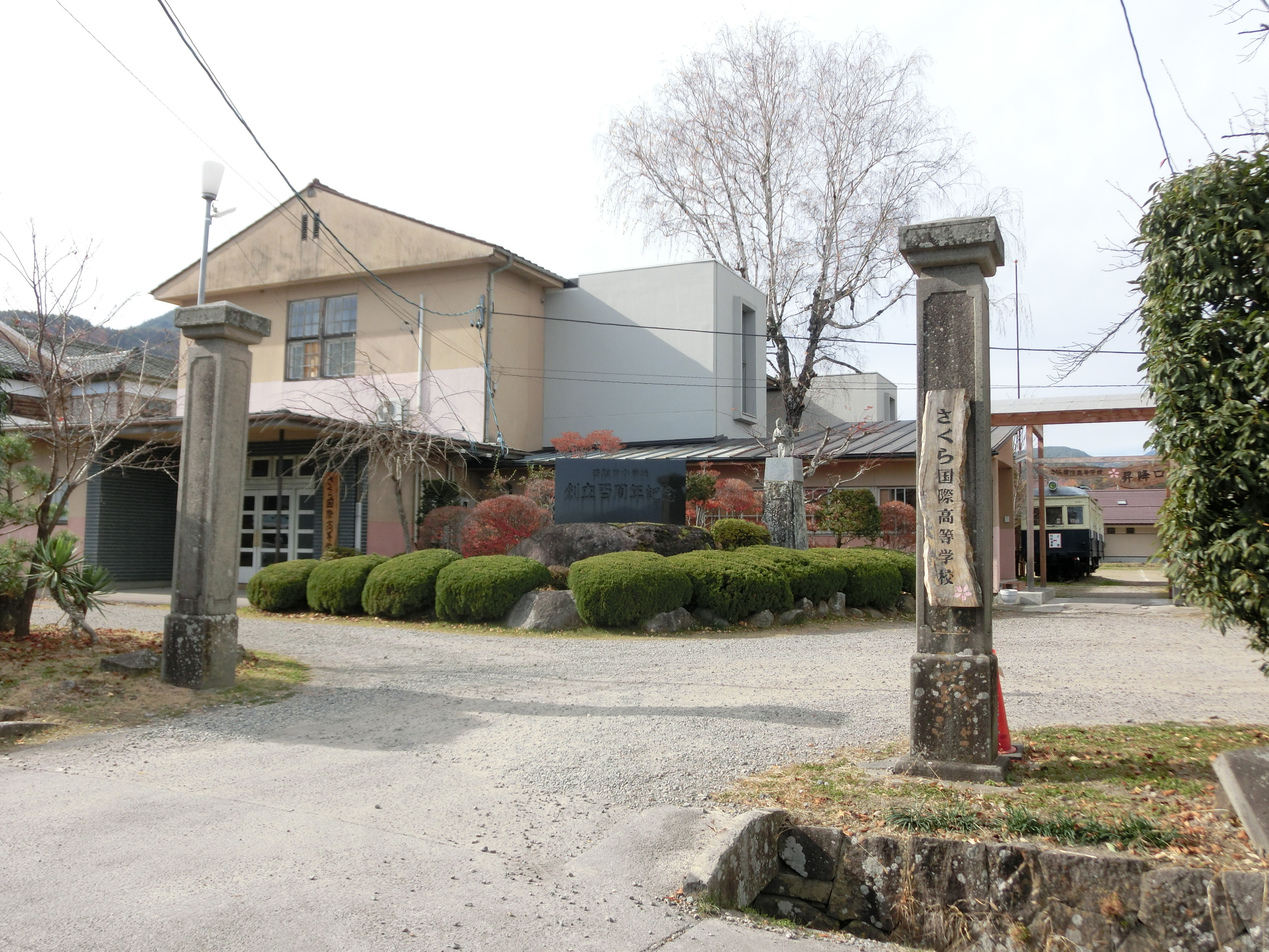 Sakura International High School